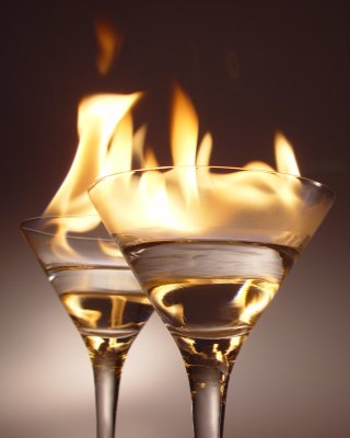 "Flaming" cocktails contain a small amount of flammable high-proof alcohol which is ignited prior to consumption.